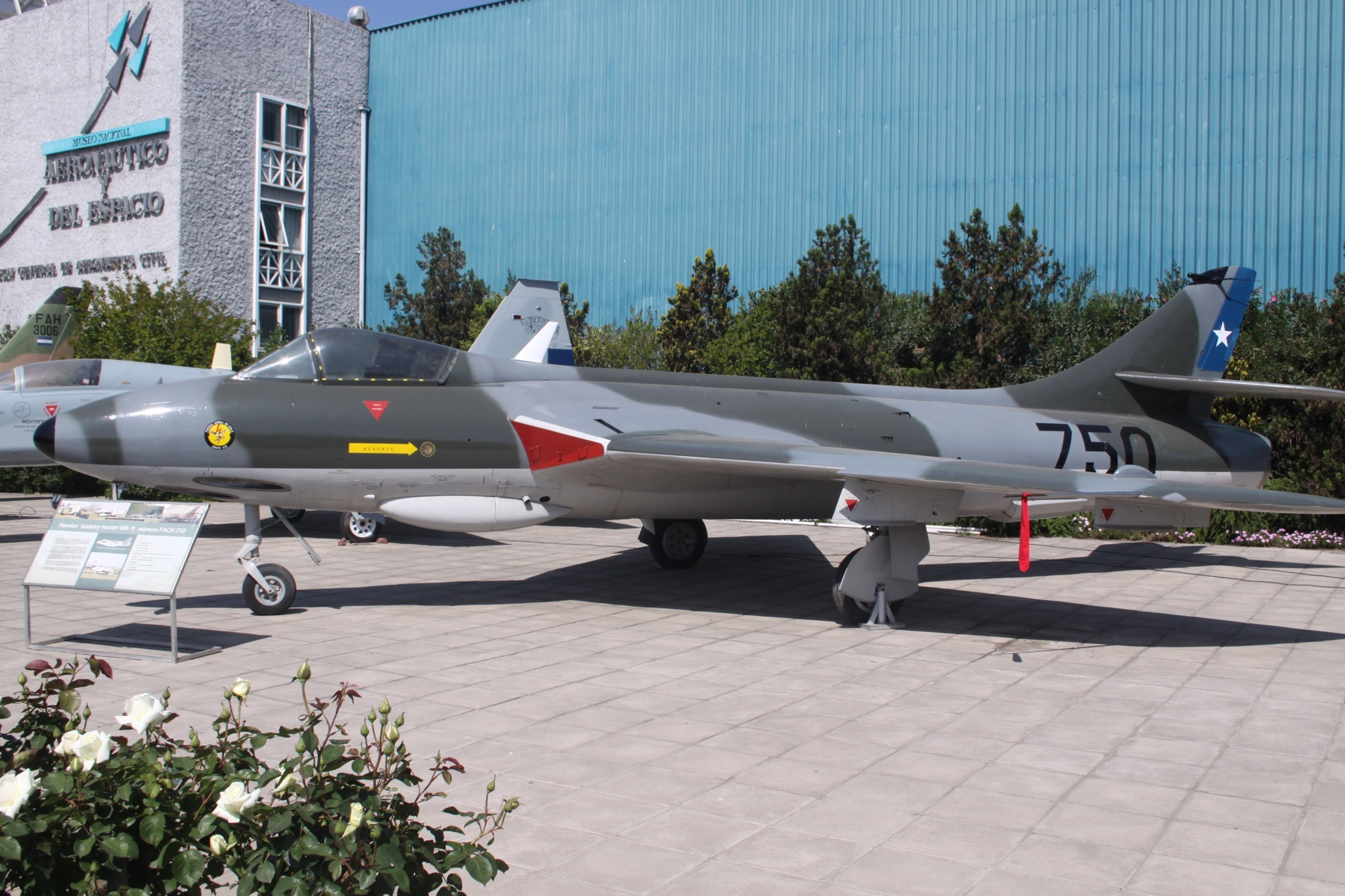 At Santiago Los Cerillos